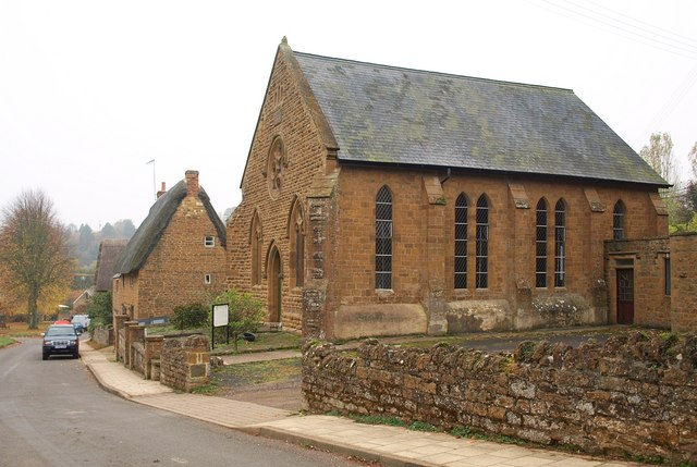 Methodist chapel, Hornton, Oxfordshire: built as a Primitive Methodist chapel in 1884. On the left, Miller's Lane descends past thatched cottages to the green.